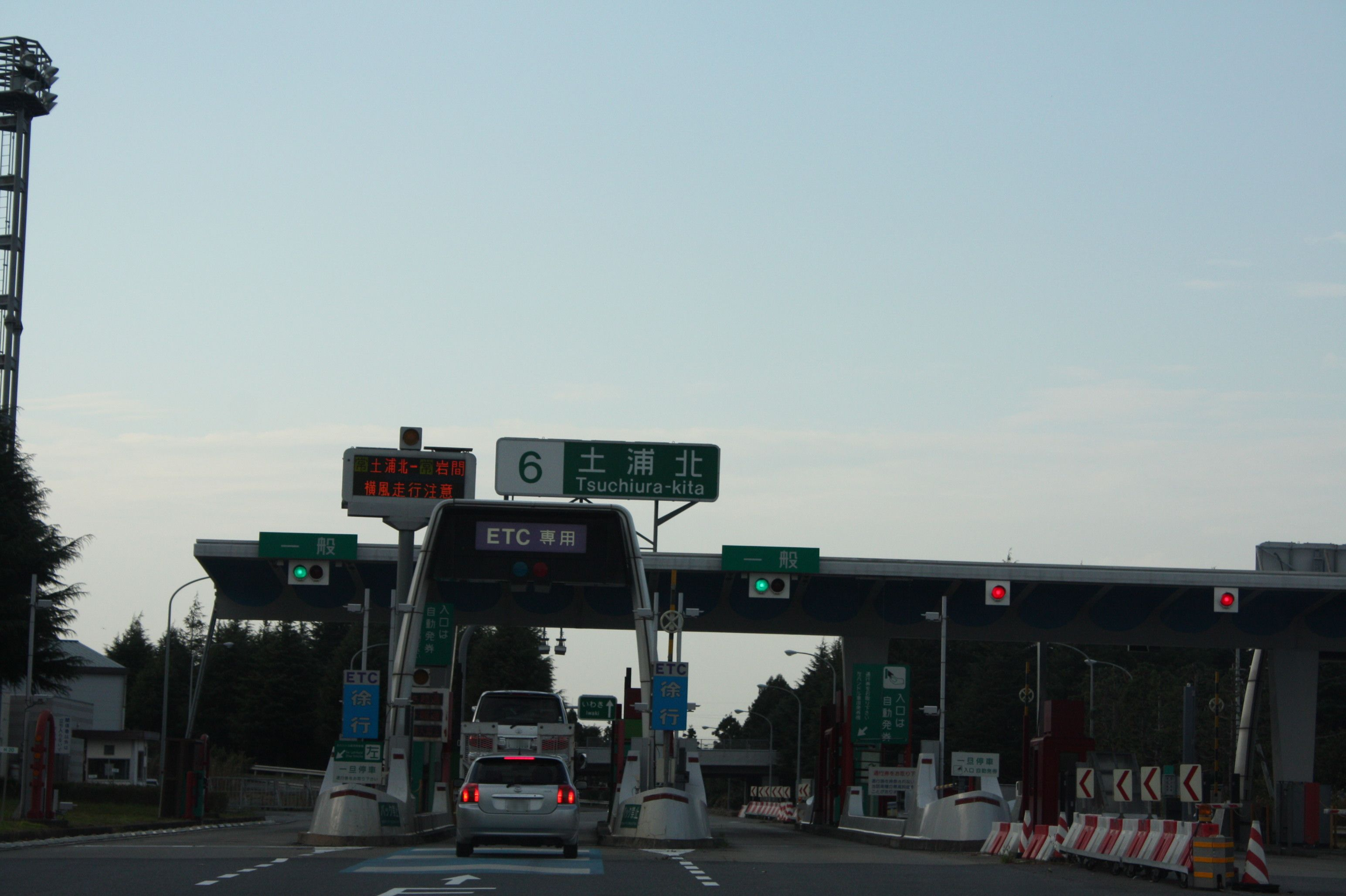 Joban Expressway Tsuchiurakita IC